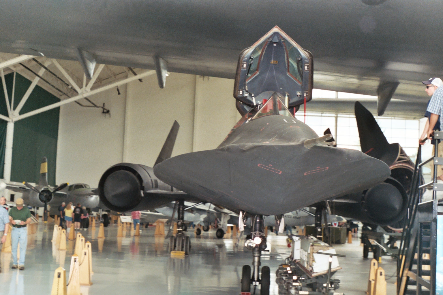 I photo I took of the SR-71 Blackbird at the Evergreen Aviation Museum in McMinnville, Oregon. Unfortunately not very good, but it could prove useful somewhere. To the right is a Titan missile, and above is the wing of the Spruce Goose.